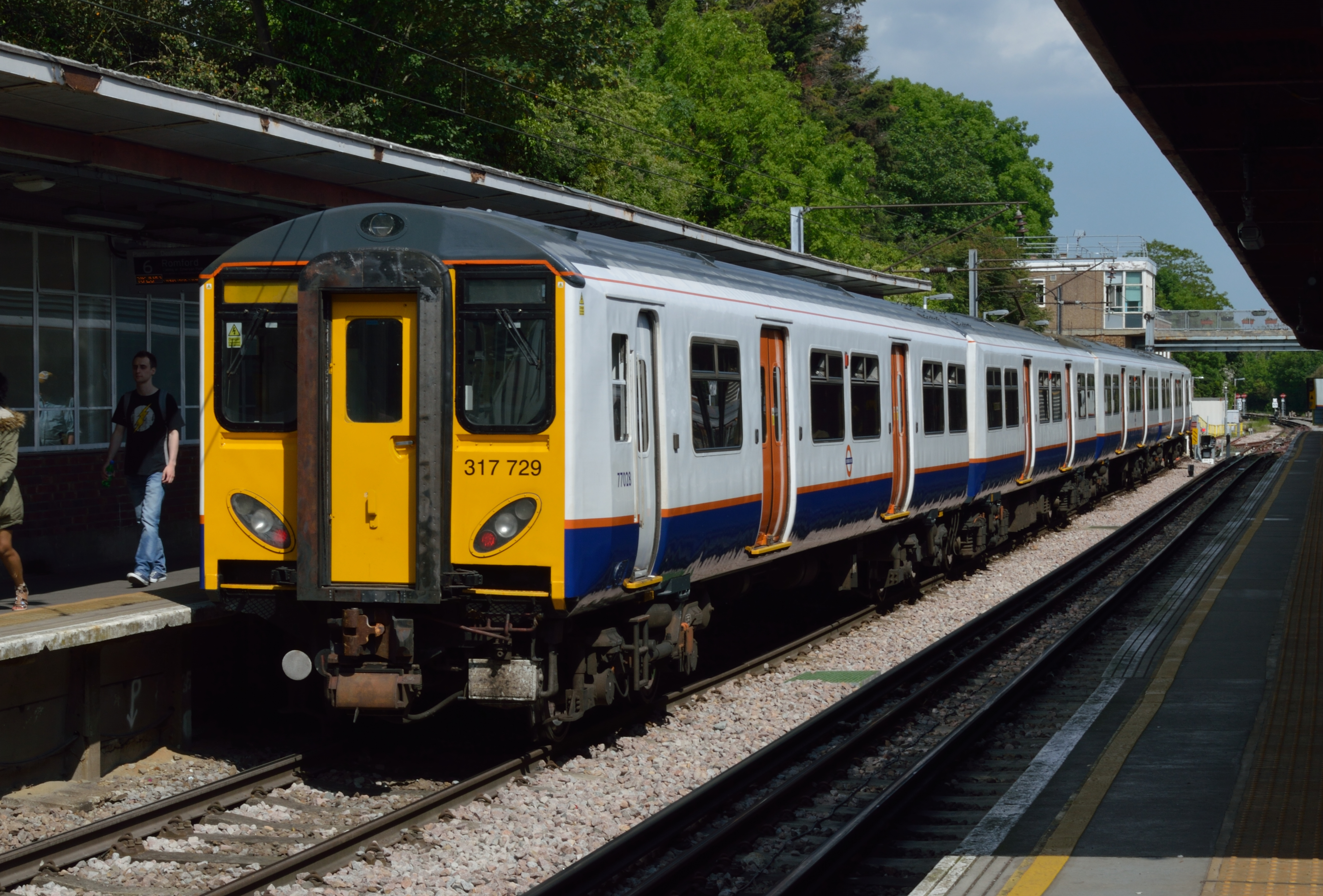 A London Overground train at Upminster